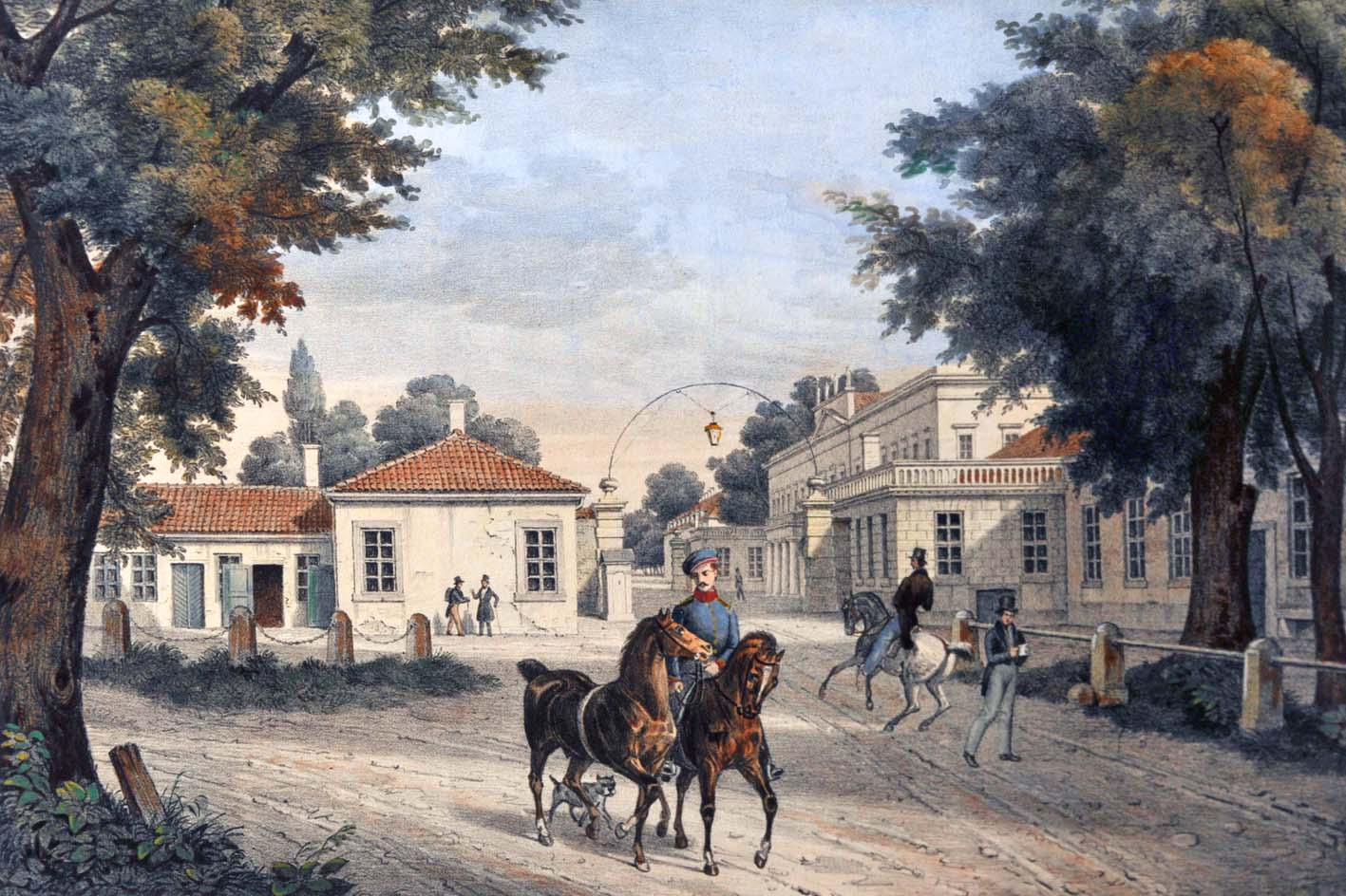 The Herrenhausen Palace 1834 in Hanover. Lithograph by Rudolf Wiegmann.